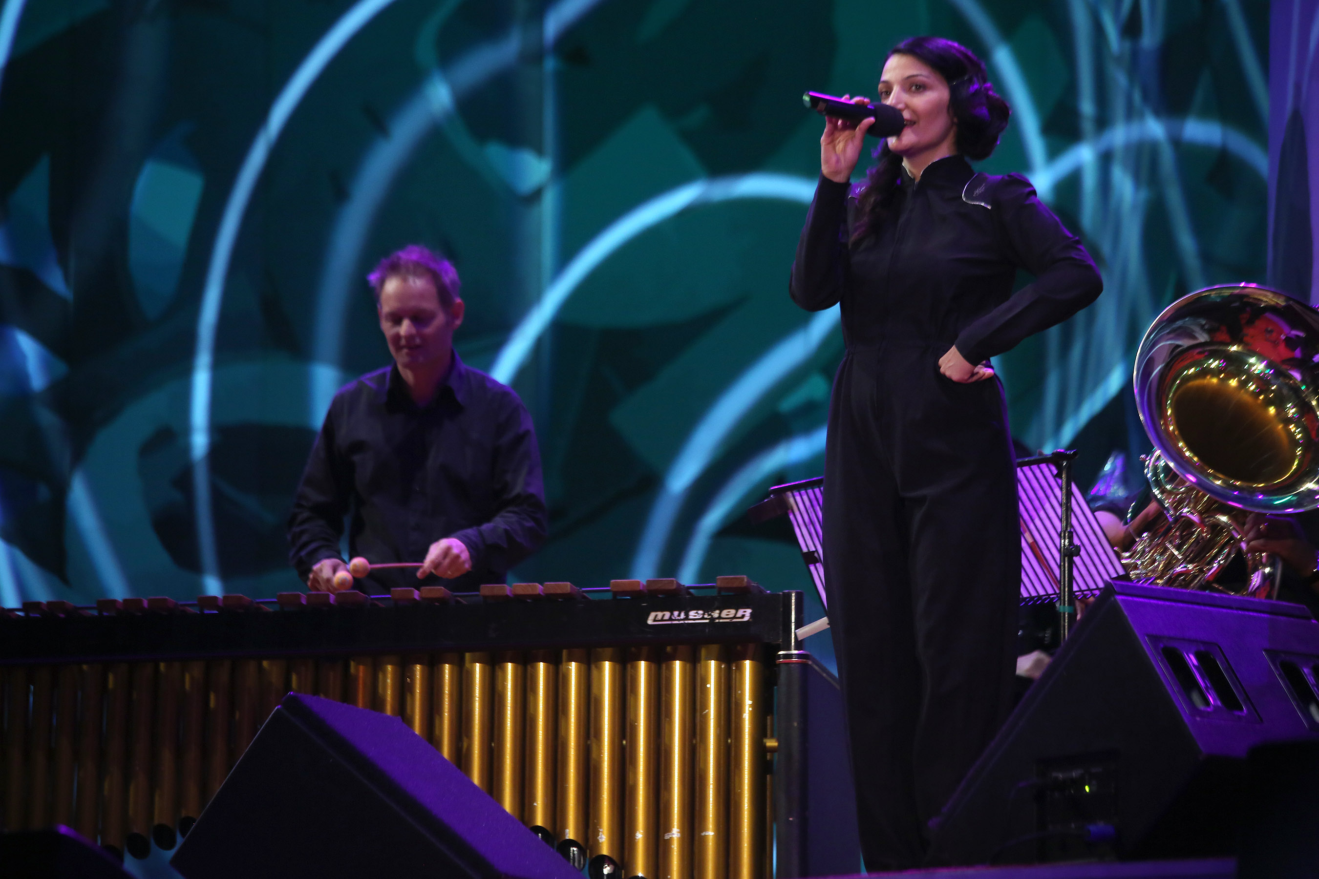 Fatima Spar (voc), Flip Philipp (mar), Jon Sass (tub) - opening evening of the Vienna Festival 2013 at the square in front of the Rathaus in Vienna, Austria